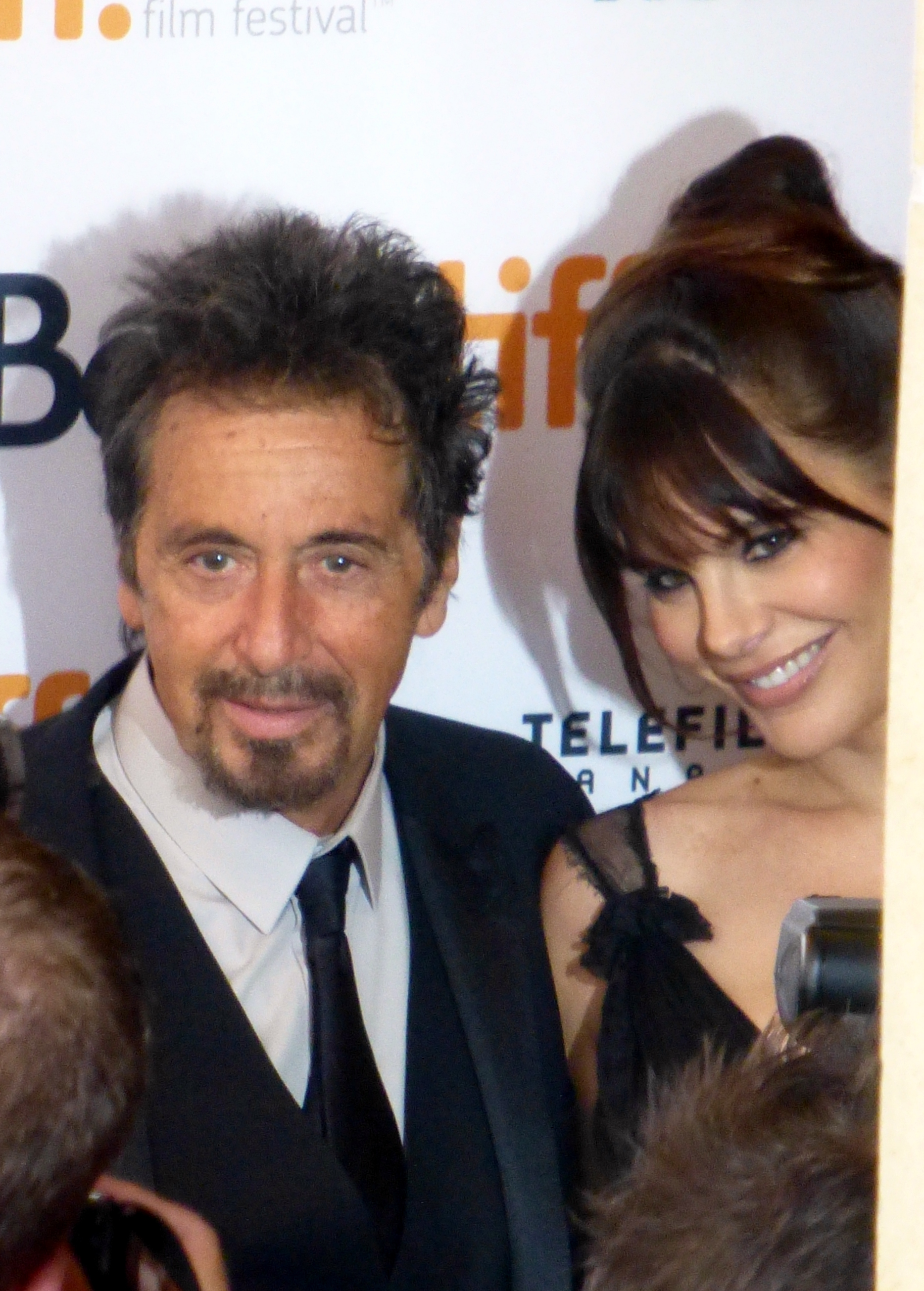 Al Pacino and Lucila Sola at the premiere of Manglehorn, 2014 Toronto Film Festival